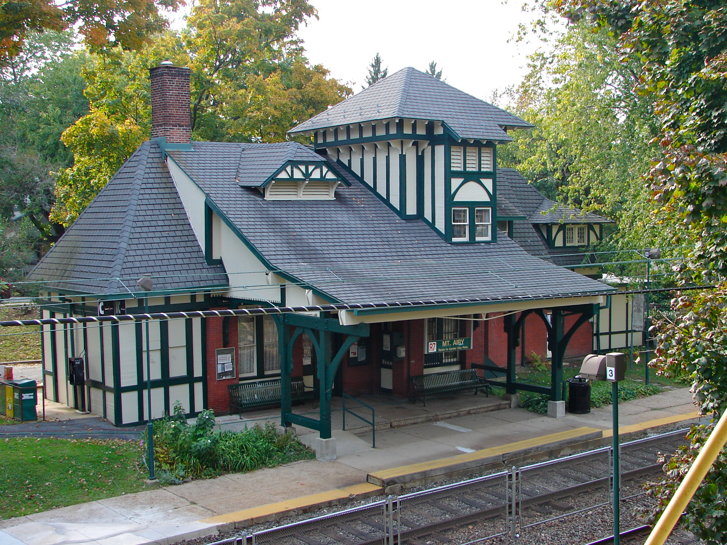 Mt. Airy Station in Philadelphia on the NRHP since September 22, 1977. At 119 East Gowen Avenue in the Mount Airy Neighborhood of NW Philadelphia. An active SEPTA station.